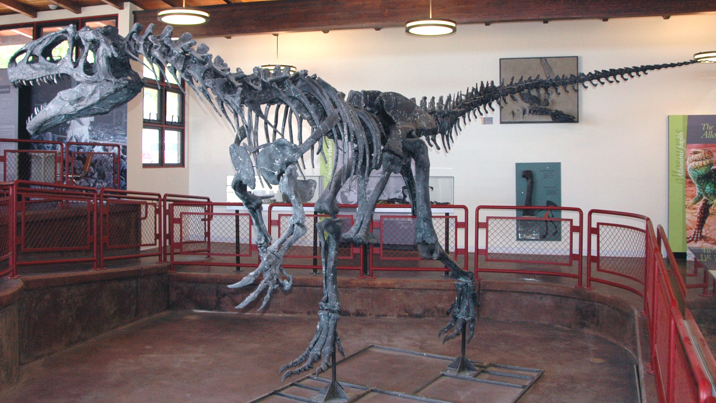 Allosaurus atrox (Marsh, 1878) theropod dinosaur from the Jurassic of Utah, USA (public display, Cleveland-Lloyd Dinosaur Quarry museum, Utah, USA). The most famous Jurassic-aged theropod is Allosaurus. It’s smaller than its Late Cretaceous relative Tyrannosaurus, but was still a top predator. The species Allosaurus atrox (Marsh, 1878) is well known from numerous individuals found in the Morrison Formation (Upper Jurassic) at the famous Cleveland-Lloyd Quarry in Utah, USA. Allosaurus atrox is only known from the Late Jurassic of western America. Classification: Animalia, Chordata, Vertebrata, Dinosauria, Saurischia, Theropoda, Allosauridae Stratigraphy: Morrison Formation, Tithonian Stage, upper Upper Jurassic Locality: Cleveland-Lloyd Quarry, northern Emery County, east-central Utah, USA Theropod were small to large, bipedal dinosaurs. Almost all known members of the group were carnivorous (predators and/or scavengers). They represent the ancestral group to the birds, and some theropods are known to have had feathers. Some of the most well known dinosaurs to the general public are theropods, such as Tyrannosaurus, Allosaurus, and Spinosaurus.